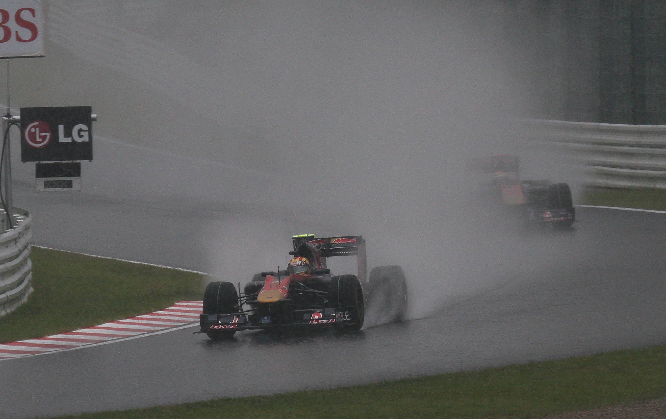 Formula One 2010 Rd.16 Japanese GP: Toro Rosso duo (Jaime Alguersuari and Sébastien Buemi) during Saturday 3rd Free Practice session.